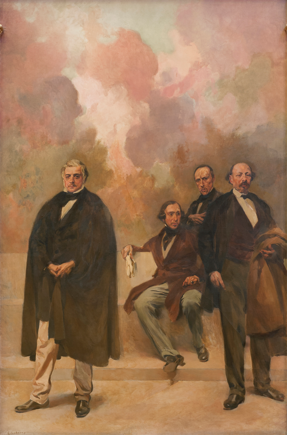 Passos Manuel, João Baptista de Almeida Garrett (1st Viscount Almeida Garrett), Alexandre Herculano, e José Estevão de Magalhães, in a 1926 painting by Columbano Bordalo Pinheiro for the Palace of Saint Benedict (Portuguese Parliament), Lisbon, Portugal.